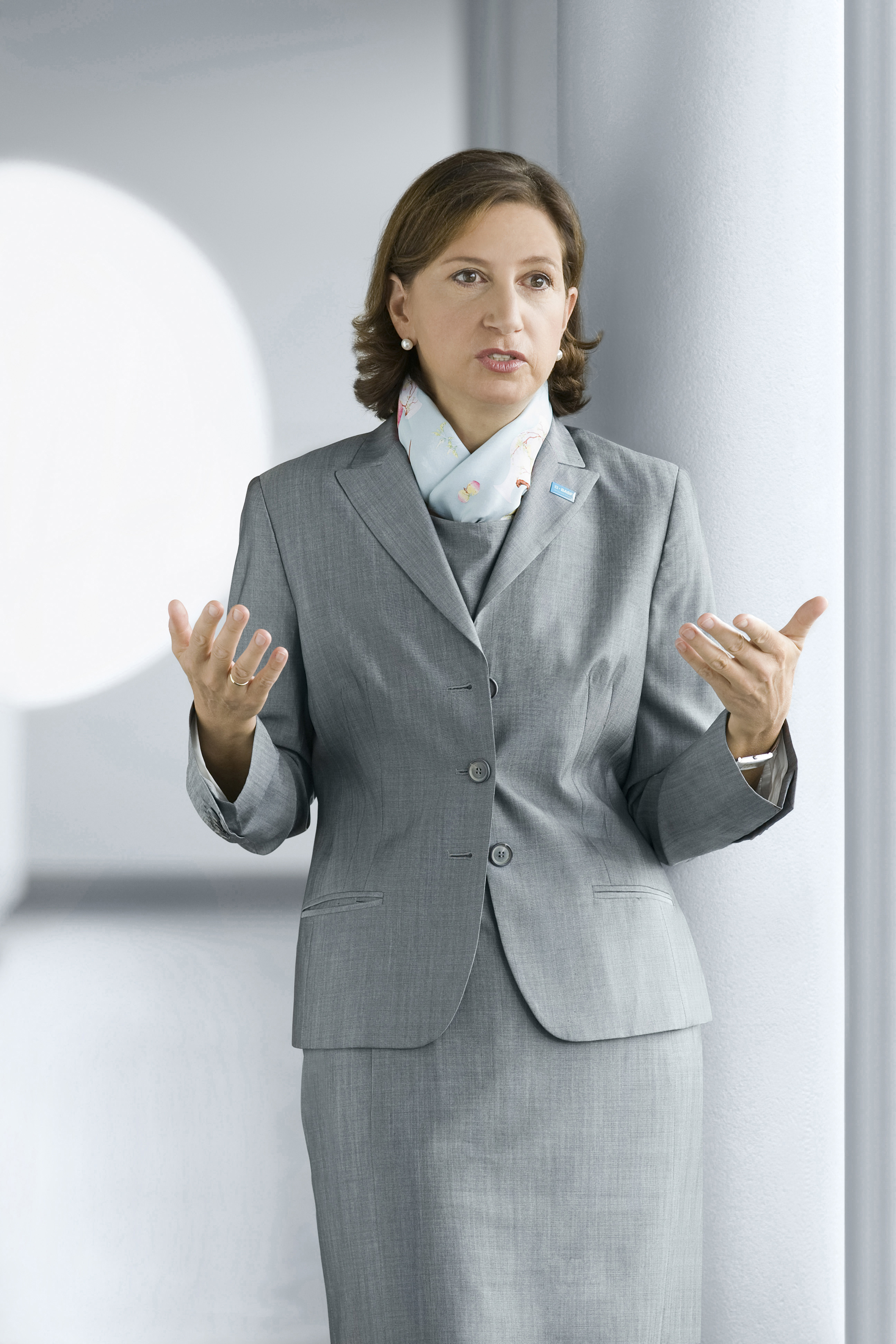 Margret Suckale, 57. Industrial Relations Director and Member of the Board of Executive Directors, Lawyer, with BASF for 4 years. Human Resources; Environment; Health & Safety; Verbund Site Management Europe; Engineering & Maintenance.